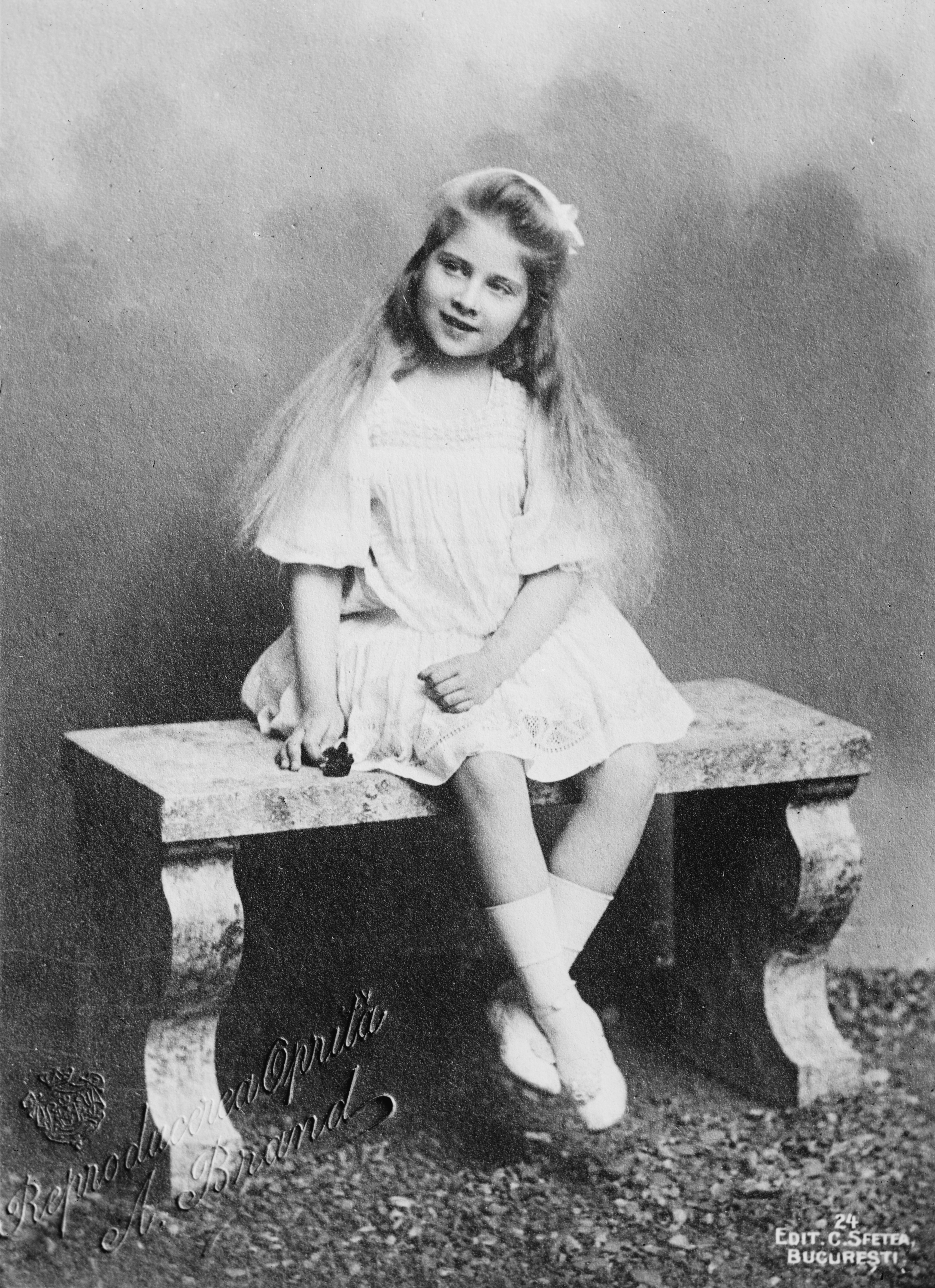 Princess Maria of Romania as a child.